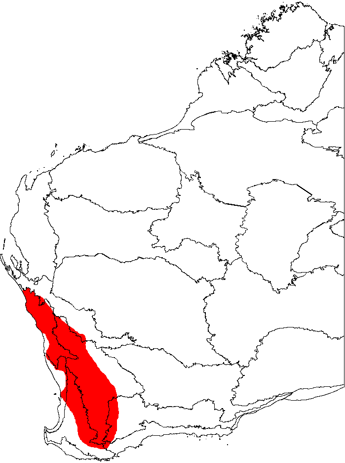 This is a map of Western Australia, showing the distribution of Banksia fraseri, superimposed on a background of the IBRA 6.1 biogeographic regions.